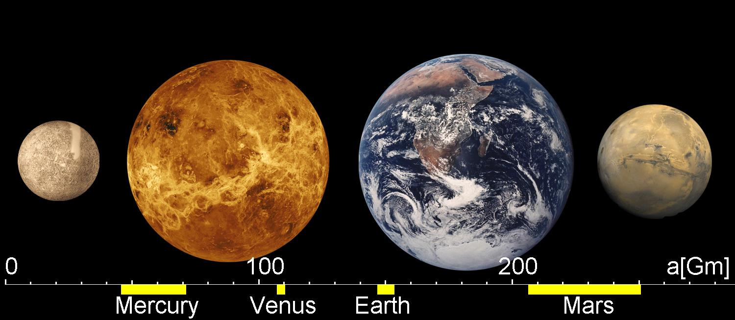 Comparison of sizes and orbits of the terrestrial planets